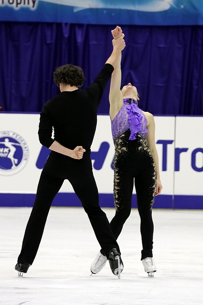 Tessa Virtue and Scott Moir at the 2016 NHK Trophy